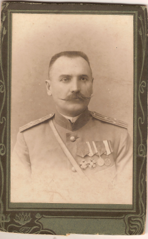 Ostapovich, Leon-Kazimir Vikentyevich.